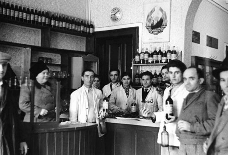 A consumers' cooperative in Communist Romania. Restaurant section.